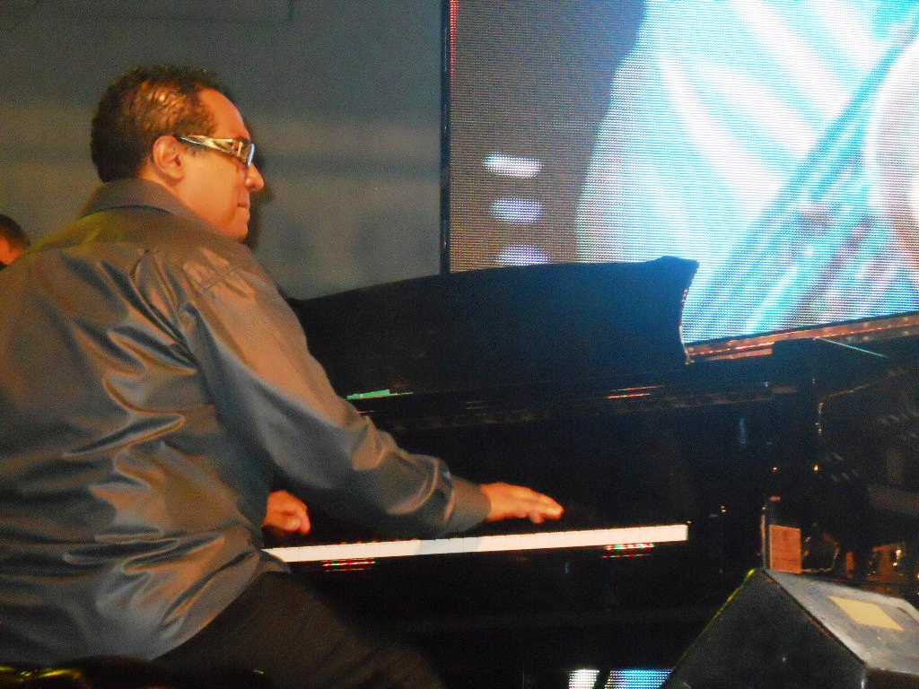 Danilo Pérez plays the piano with Tito Puente Jr. and the Panama Jazz Festival Ensemble, at the free concert in Plaza Catedral, San Felipe, Panama City, Panama.